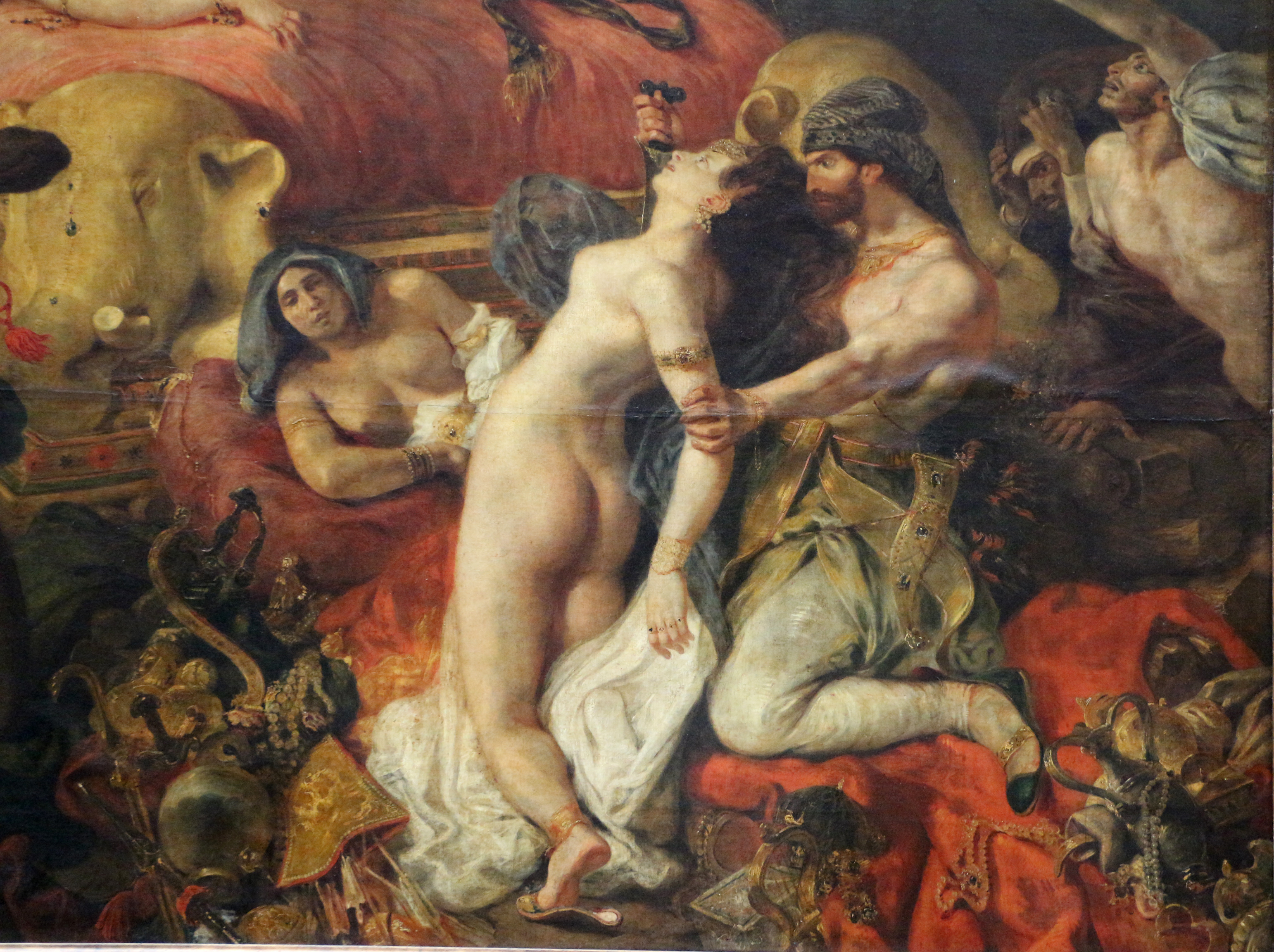 French paintings in the Louvre - Room 77